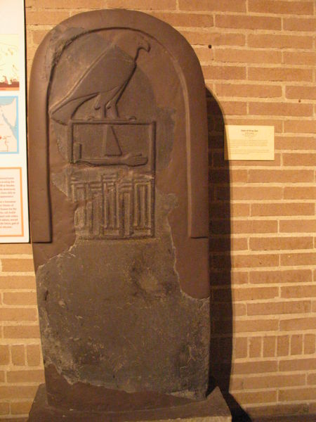 Stela of Qa'a in the Museum of Archeology and Anthropolgy at the University of Pennsylvania, Philadelphia